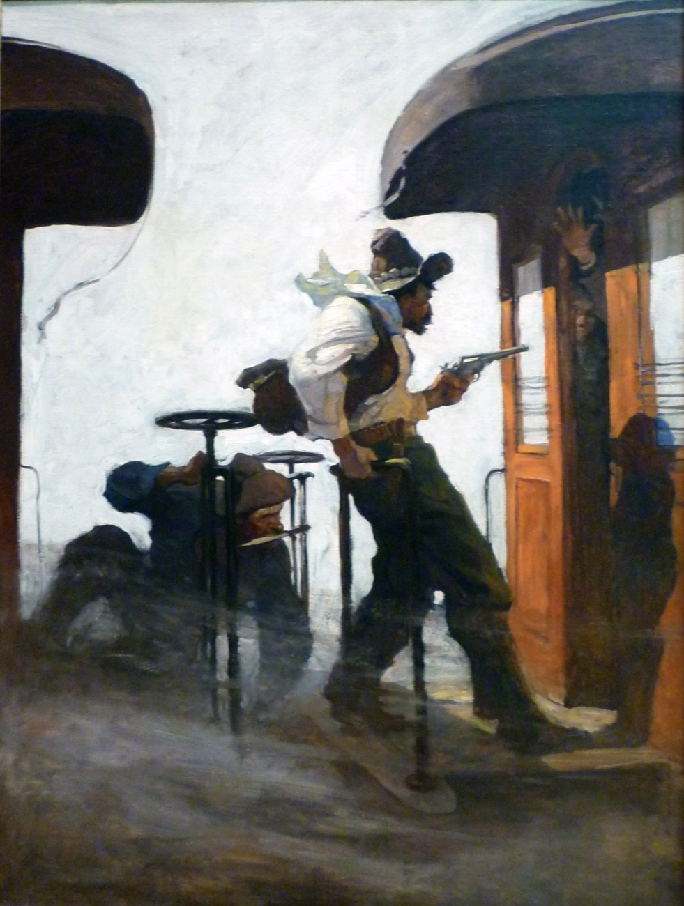 painting to illustrate McKeon's Graft a story by Luke Thrice (real name John Riussell) published in the periodical New Story Magazine, vol. IV, no. 6. 1912, The painting was the cover of the issue.